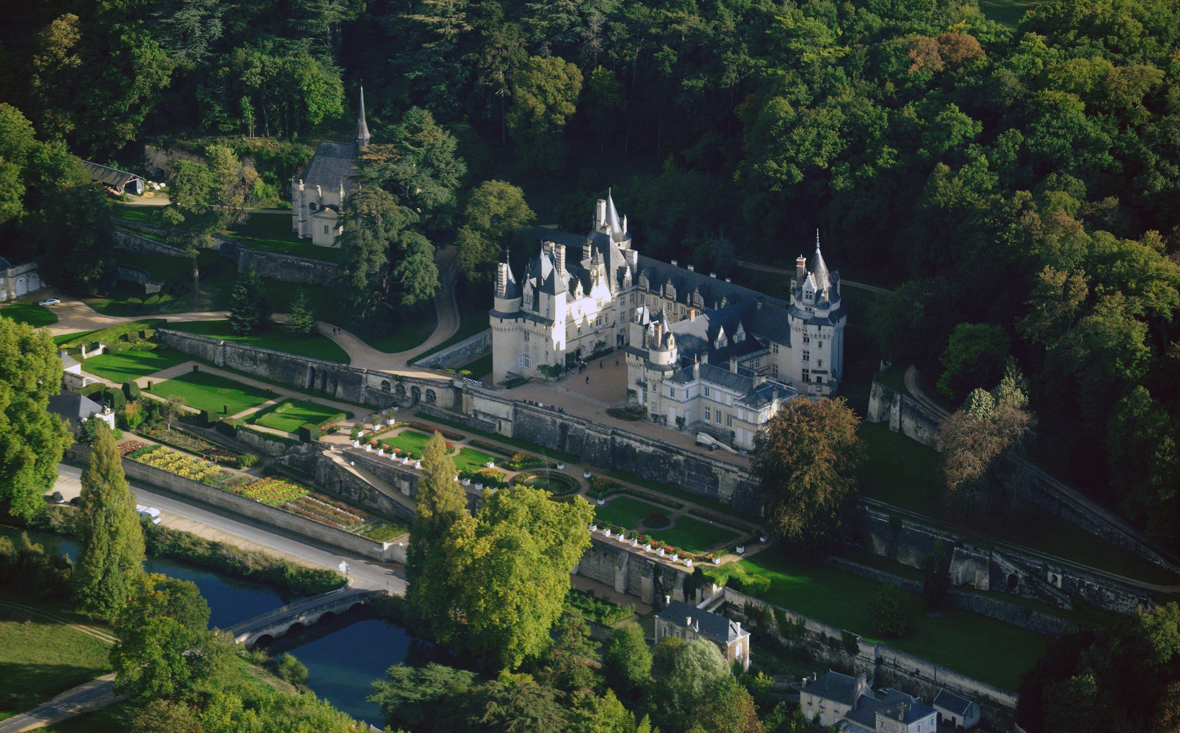 Aerial view of Ussé castle by the Indre river at the commune of Rigny-Ussé (Indre-et-Loire department, France). The church of Our Lady, to the left of the castle, belongs to the domain. Nikon D60 f=90mm f/6.3 at 1/640s ISO 400. Processed using Nikon ViewNX 1.3.0 and GIMP 2.6.6.